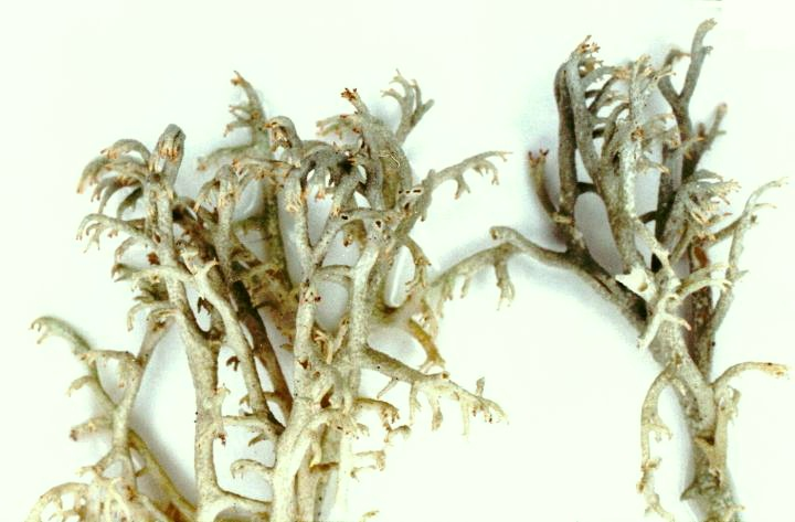 Cladonia arbuscula (Wallr.) Flotow, 1839 Photograph of a herbarium specimen. This specimen of C. arbuscula was growing on soil south of Dolfield Road at the Soldiers Delight Natural Environment Area, Owings Mills, Baltimore County, Maryland, USA (N 39o24.110', W 76o49.374'). Collected and determined by E.C. Uebel (No. U-468, 29 Jun 2003)